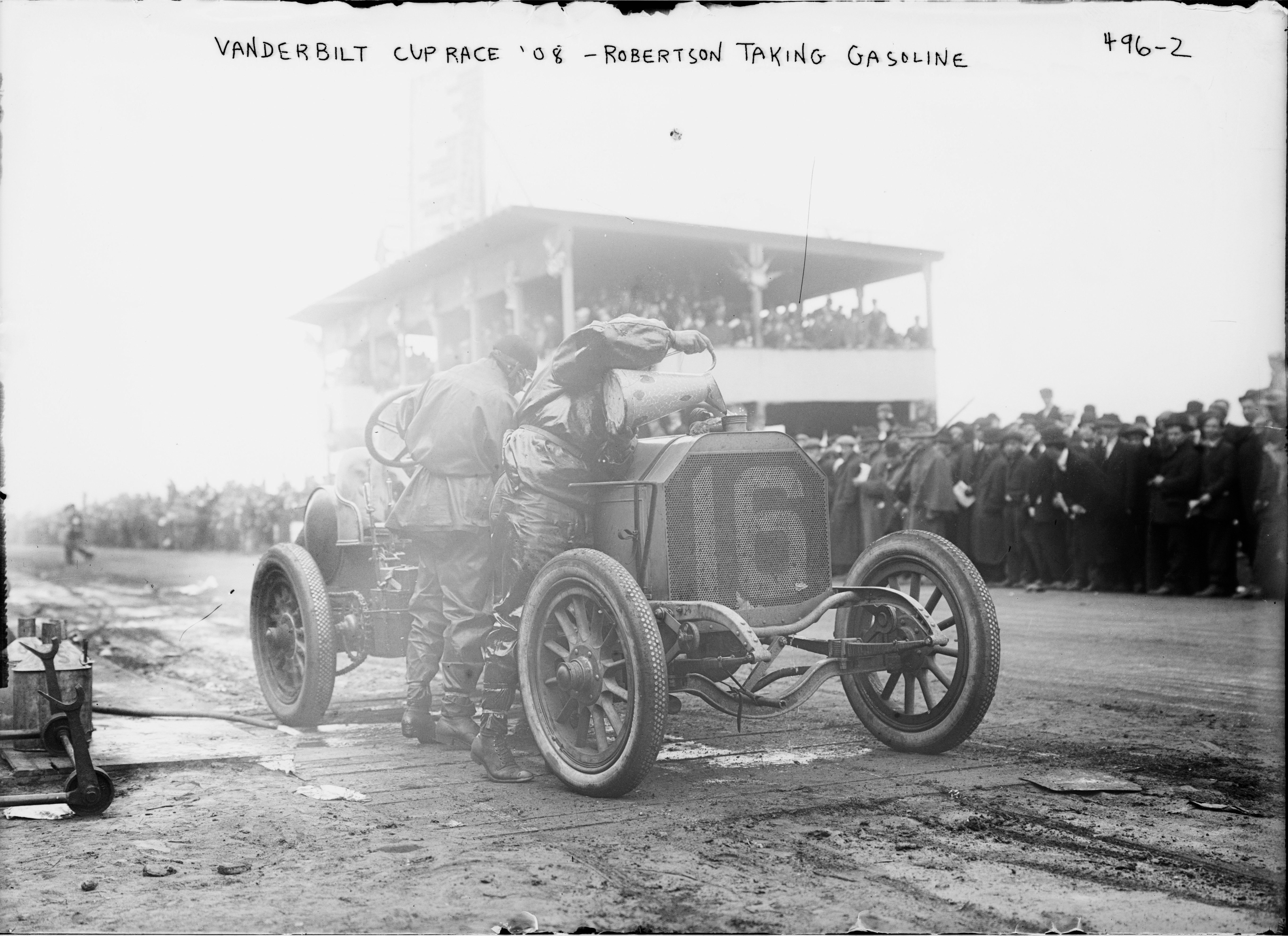 Later race winner George Robertson pouring gas into the tank of Locomobile "Old 16" on racetrack, at the 1908 Vanderbilt Cup race